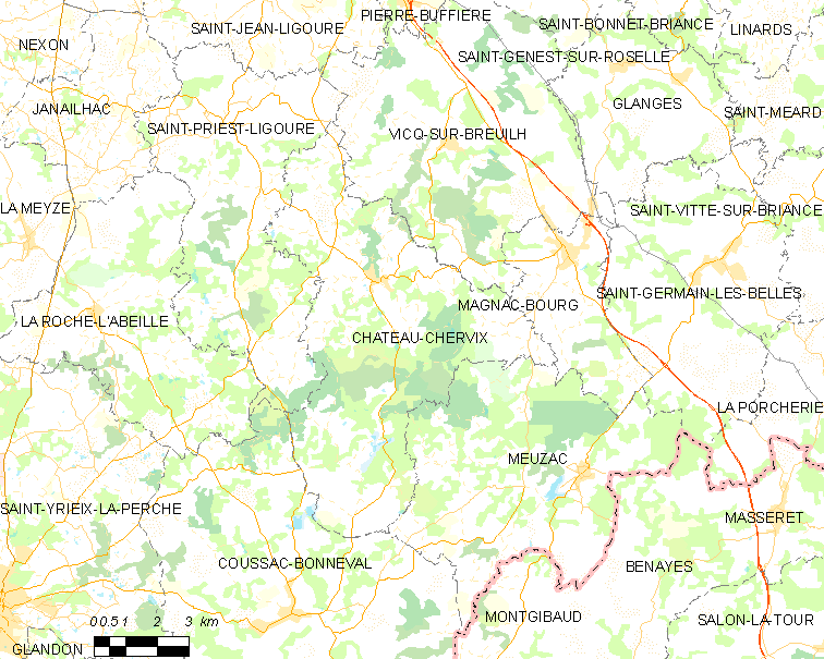 Map of French municipality Château-Chervix